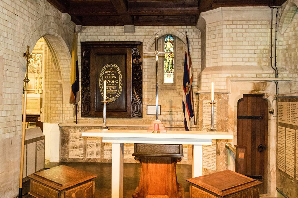 The Chapel dedicated to the Royal Army Service Corps in the Cathedral of St Michael and St George, Aldershot